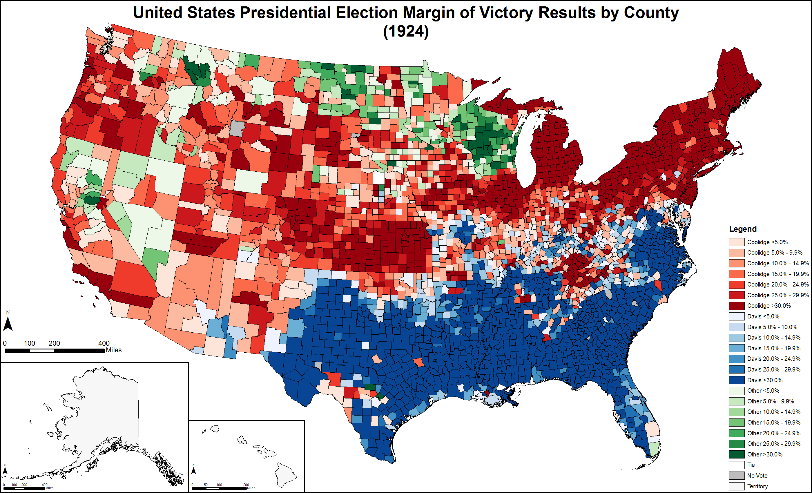 Presidential election margin of victory results by county (1924). Colors based on Colorbrewer 2.0.